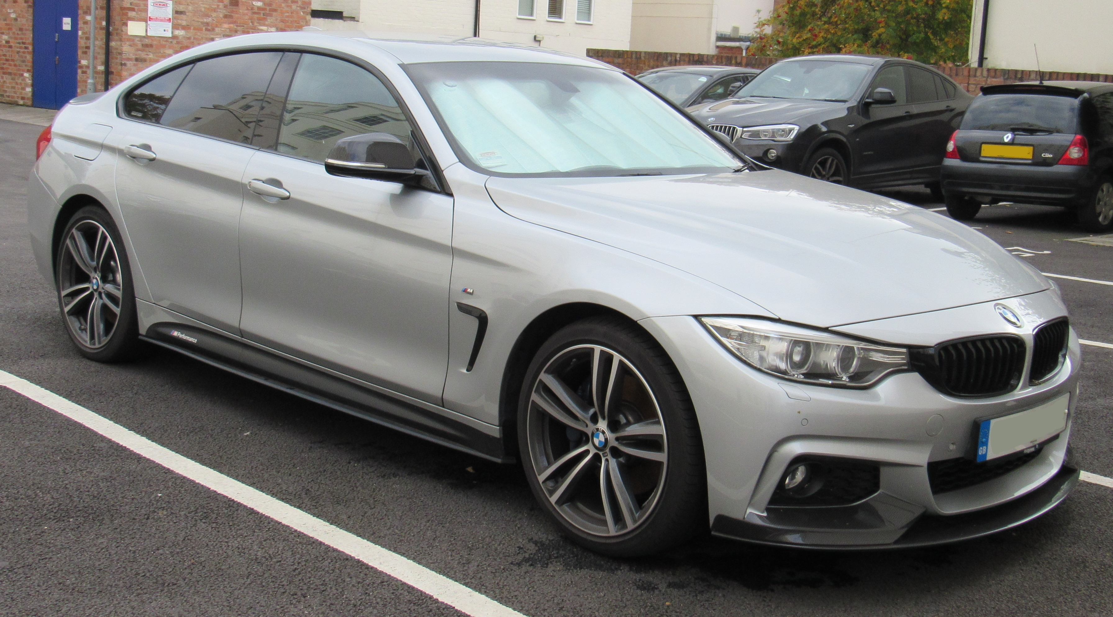 2016 BMW 420i Gran Coupe M Sport Automatic 2.0 Front Taken in Leamington Spa